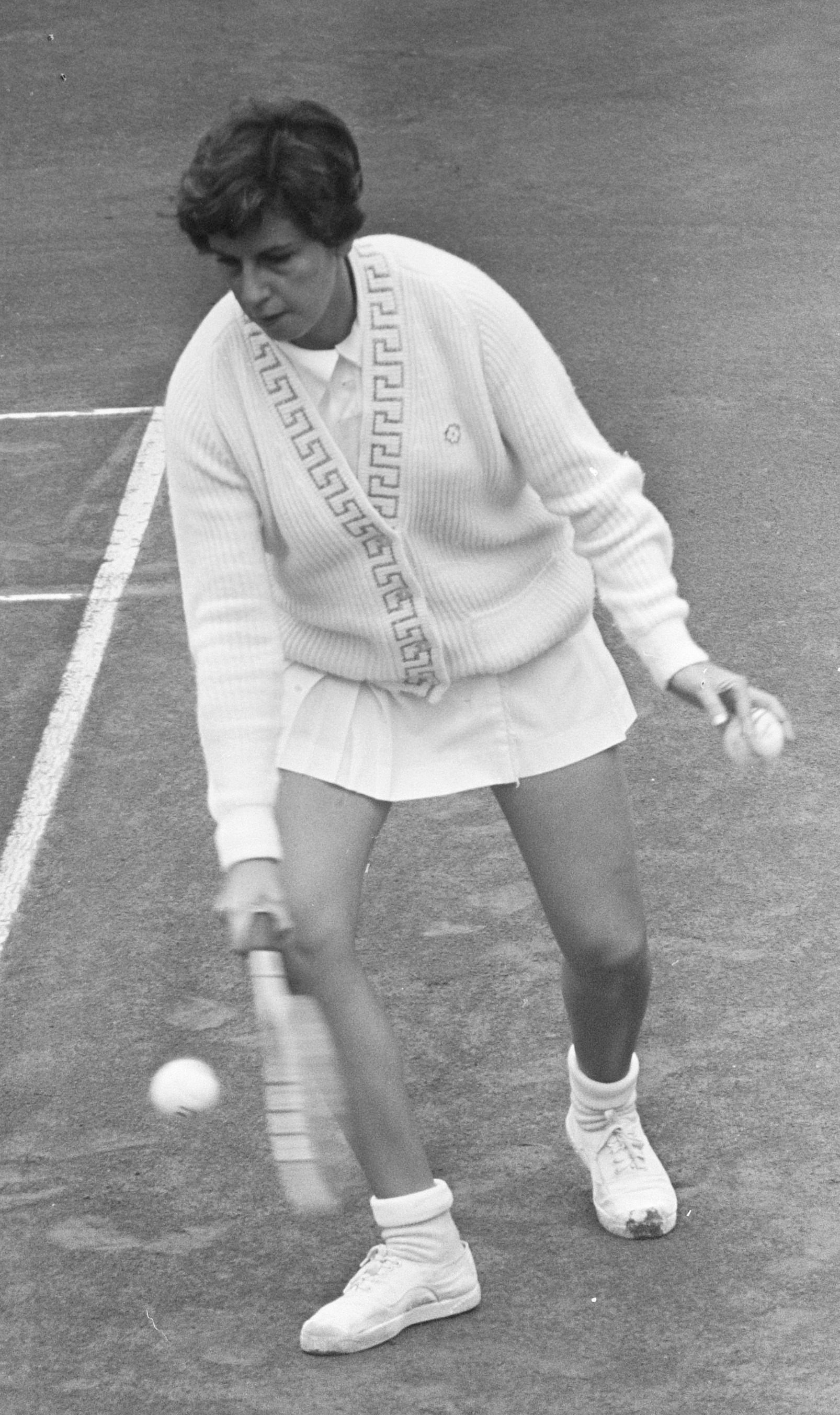 Brazilian tennis player Maria Bueno at a tournament in Hilversum, The Netherlands (1964)